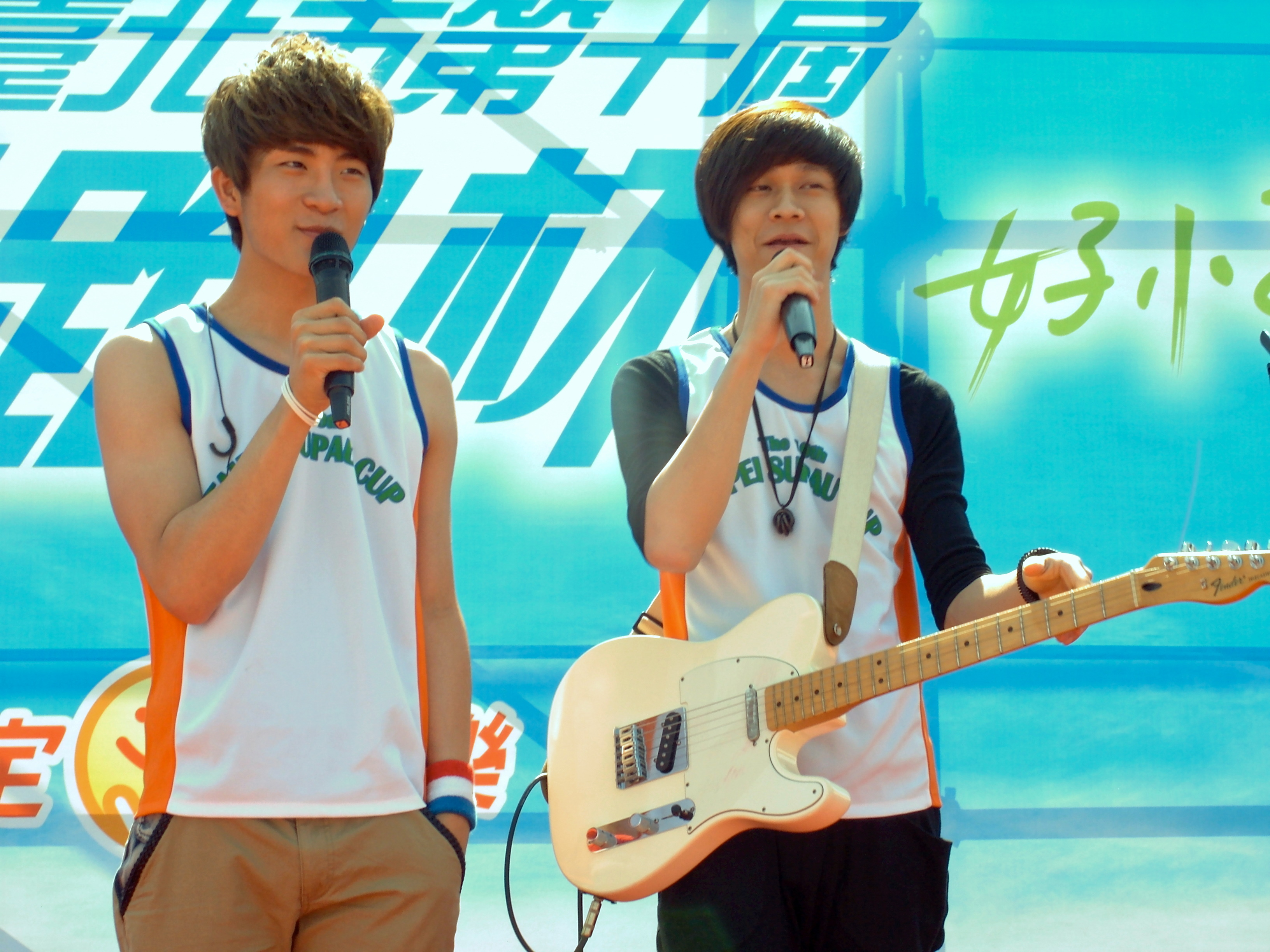 COLOR BAND, 2012 Taipei Supau Cup Mini Marathon.